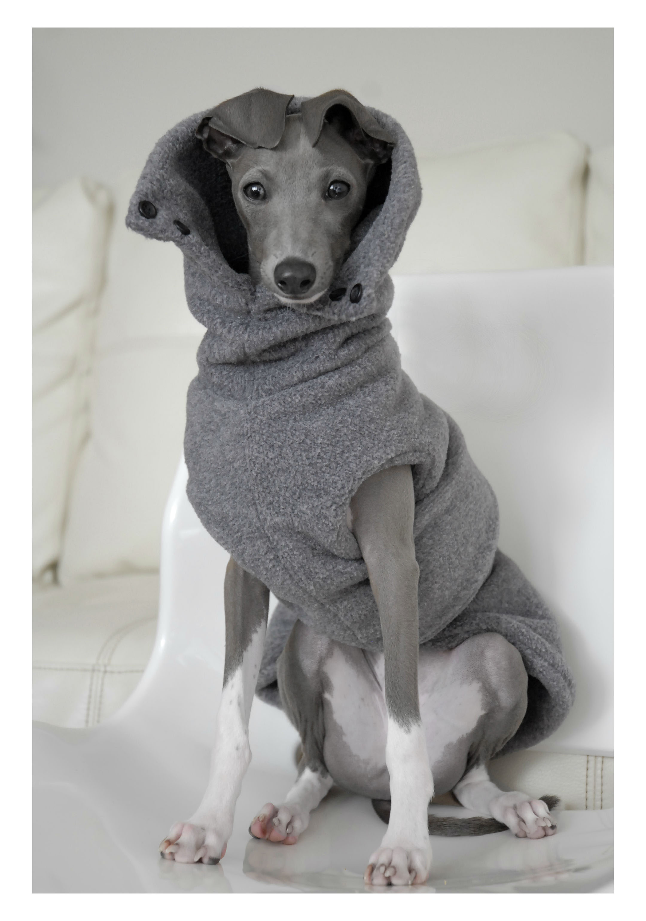 Photo of an Italian Greyhound in dog clothing